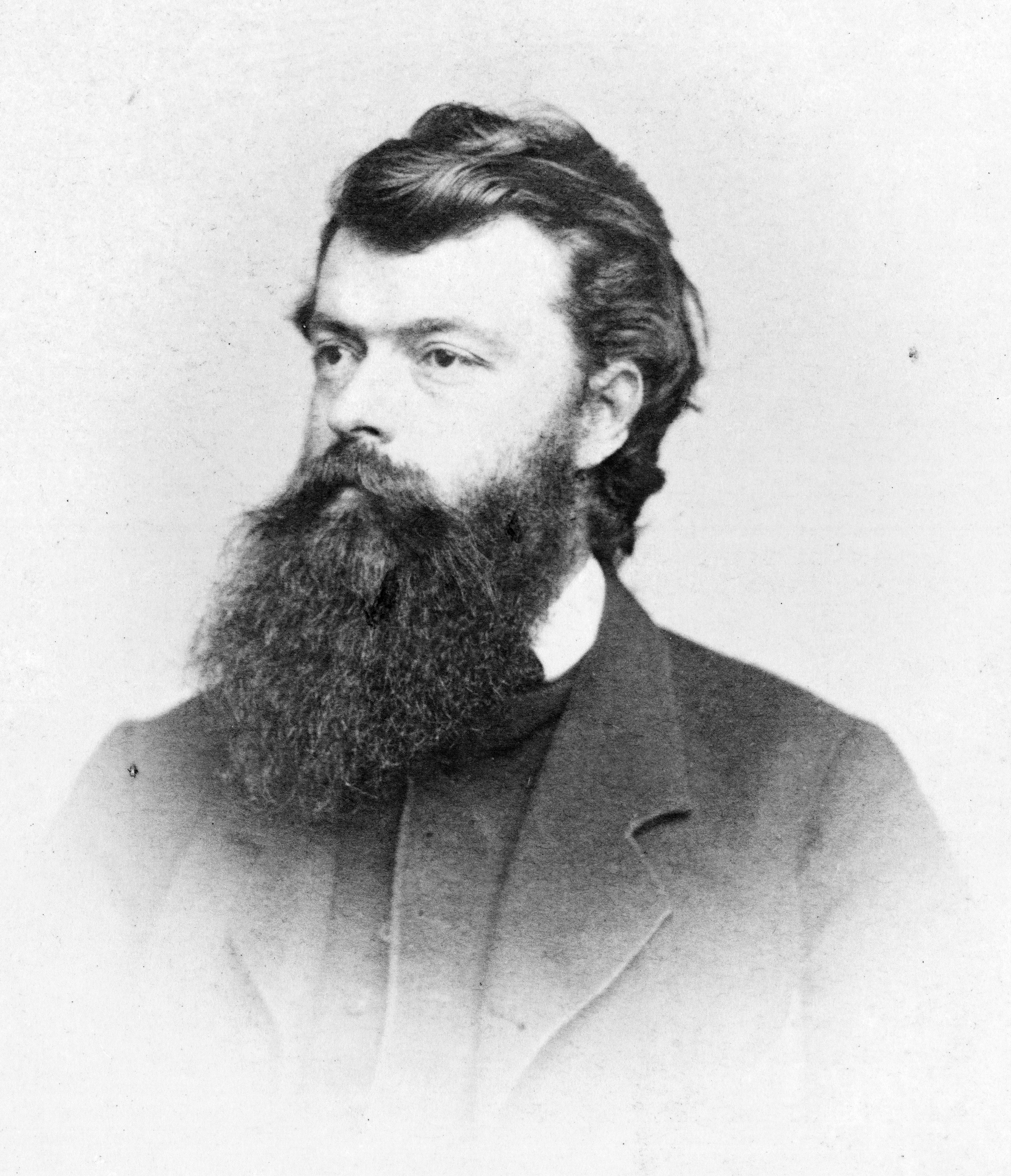 John Henry Devereux, superintendent of military railroads (U.S. Bureau of Military Railroads) in Virginia during the American Civil War. This image was taken some time between 1862 and 1865.